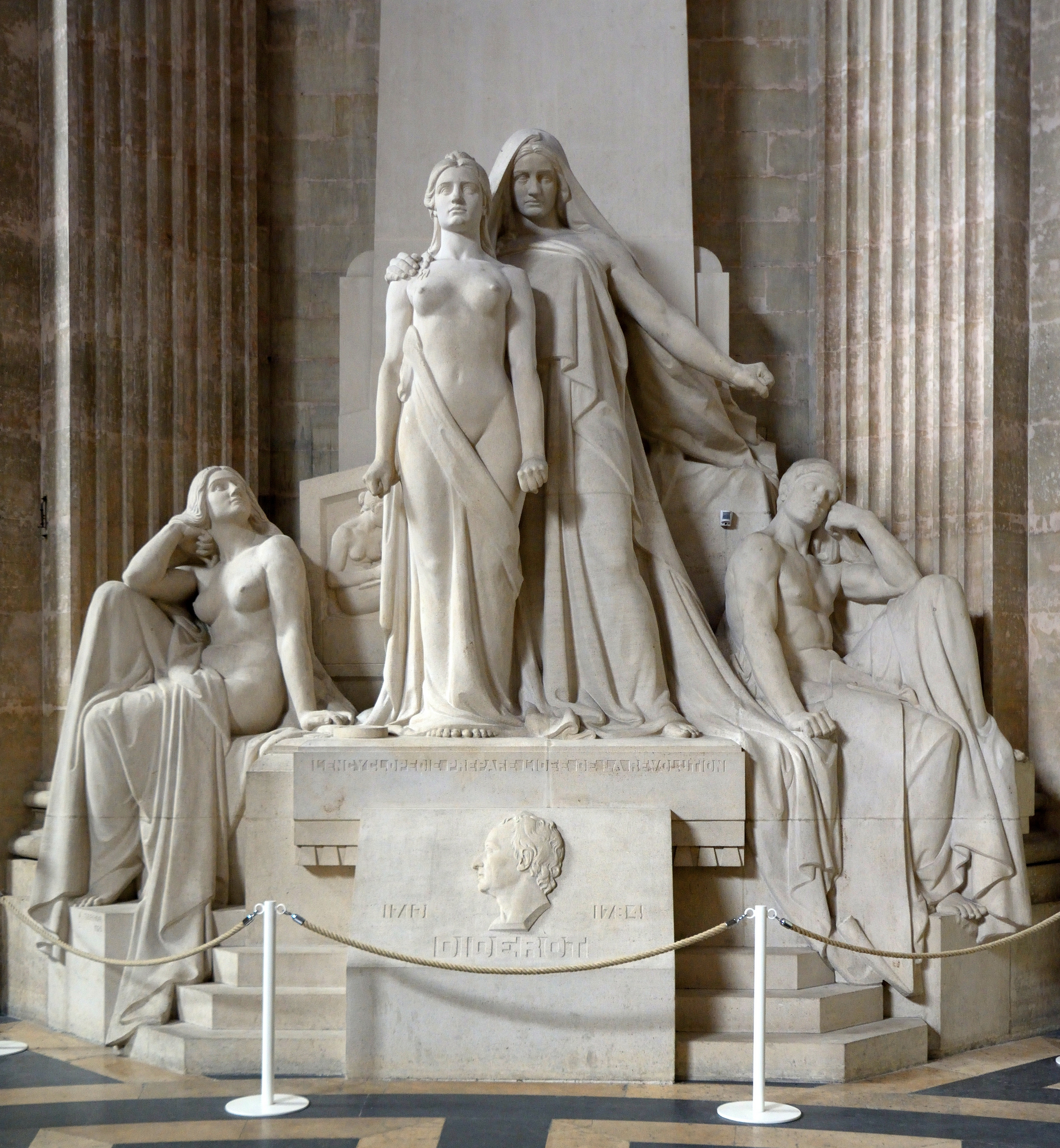 Panthéon, monument to Denis Diderot